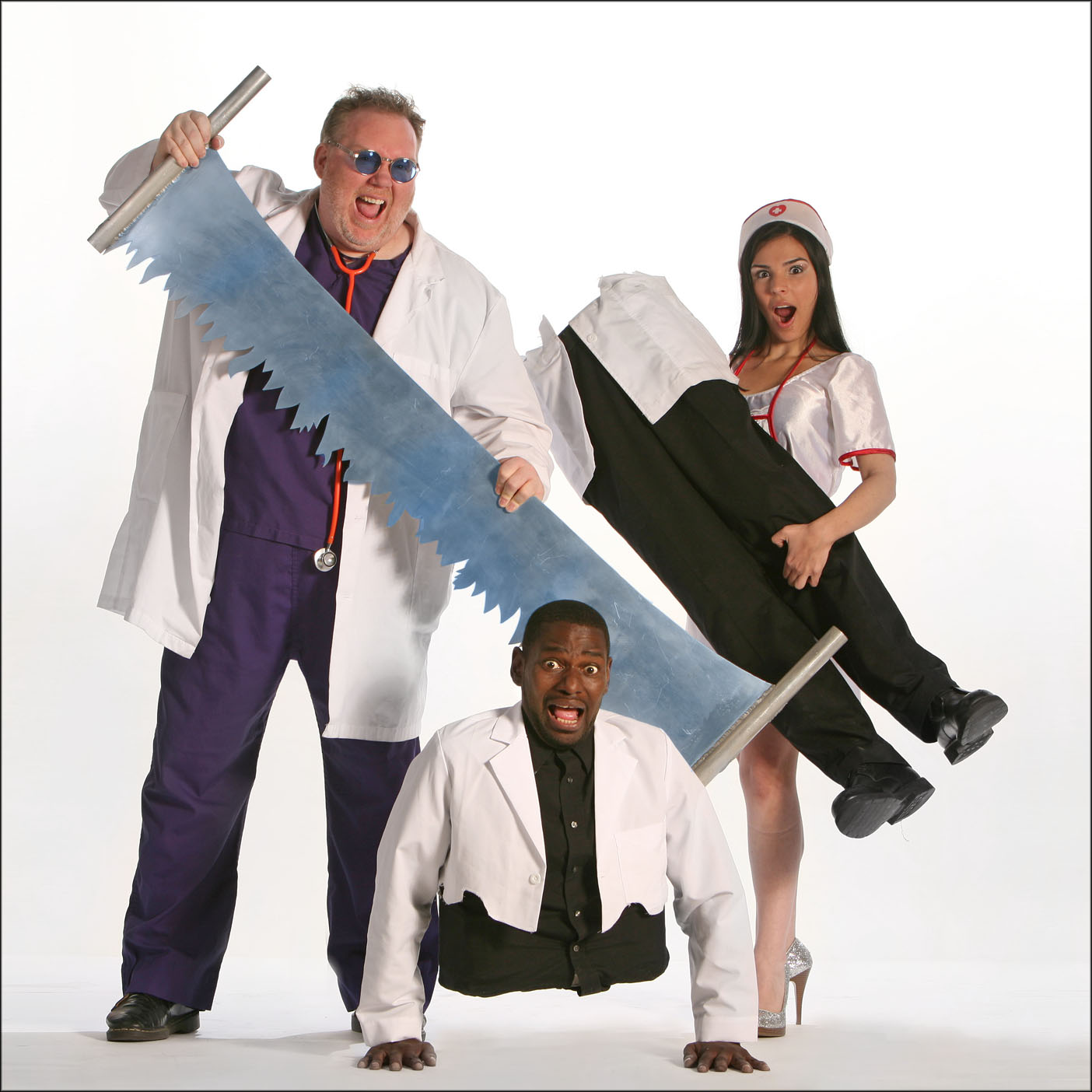 Magician Kevin James, with Edward Hawkins and Andreina Soler